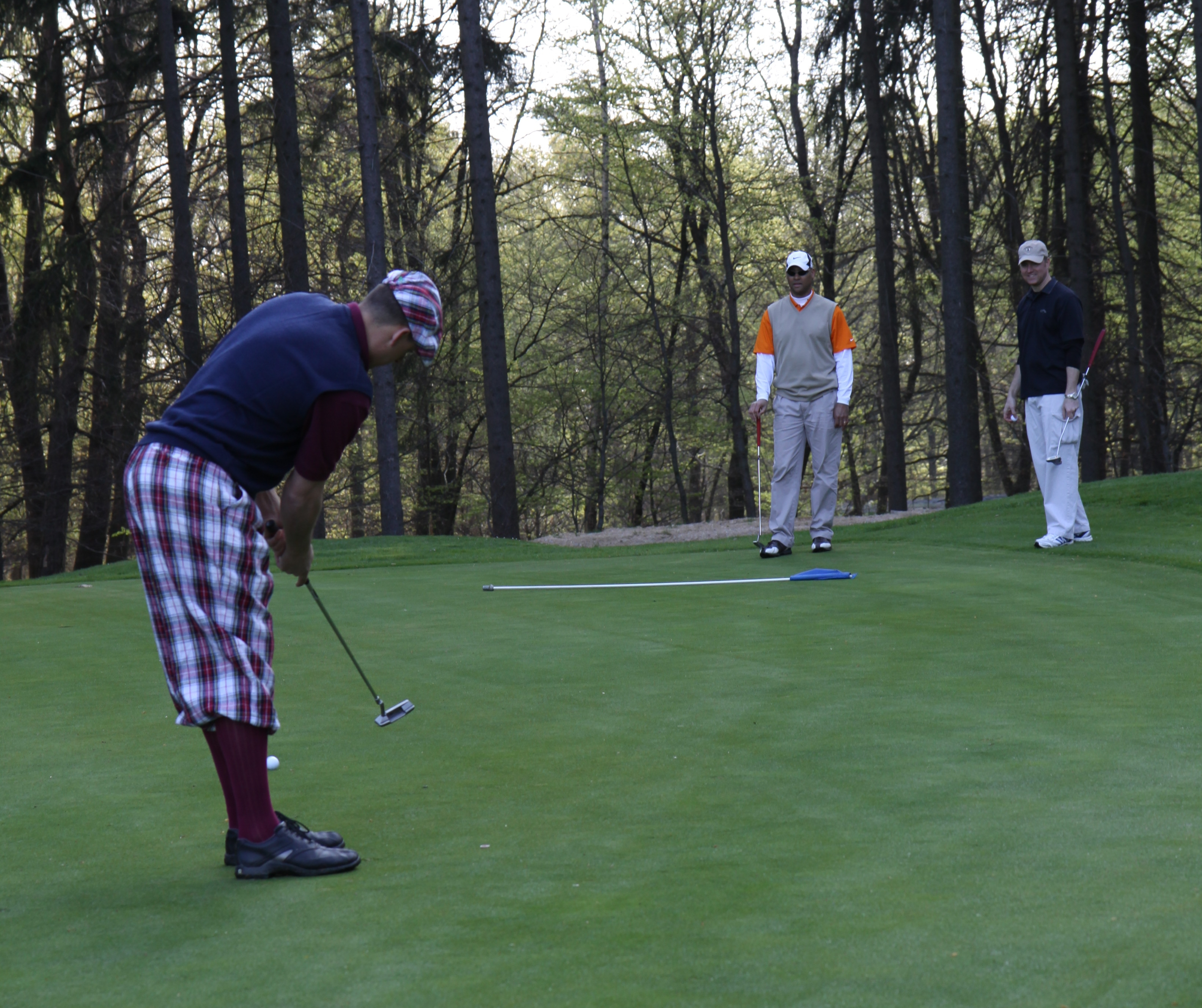 Golfers putt on the green during the Big Bucks for College Charity Golf Tournament April 8, 2011, at the Rheinblick Golf Course in Wiesbaden, Germany.